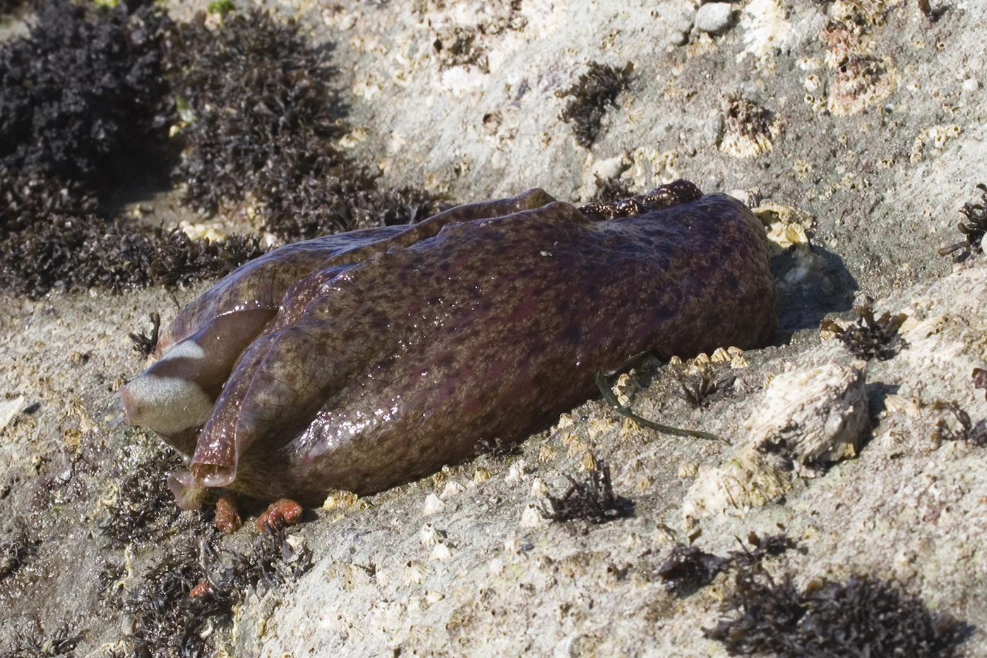 Sea Hare, Morro Bay, CA, March 23, 2007. Shot with a Canon 20D with 100-400mm IS lens handheld from a kayak, shot in RAW, sharpened in Photoshop CS2. Photo by Mike Baird 23mar2007 23march2007 Identification: This is an Aplysia californica